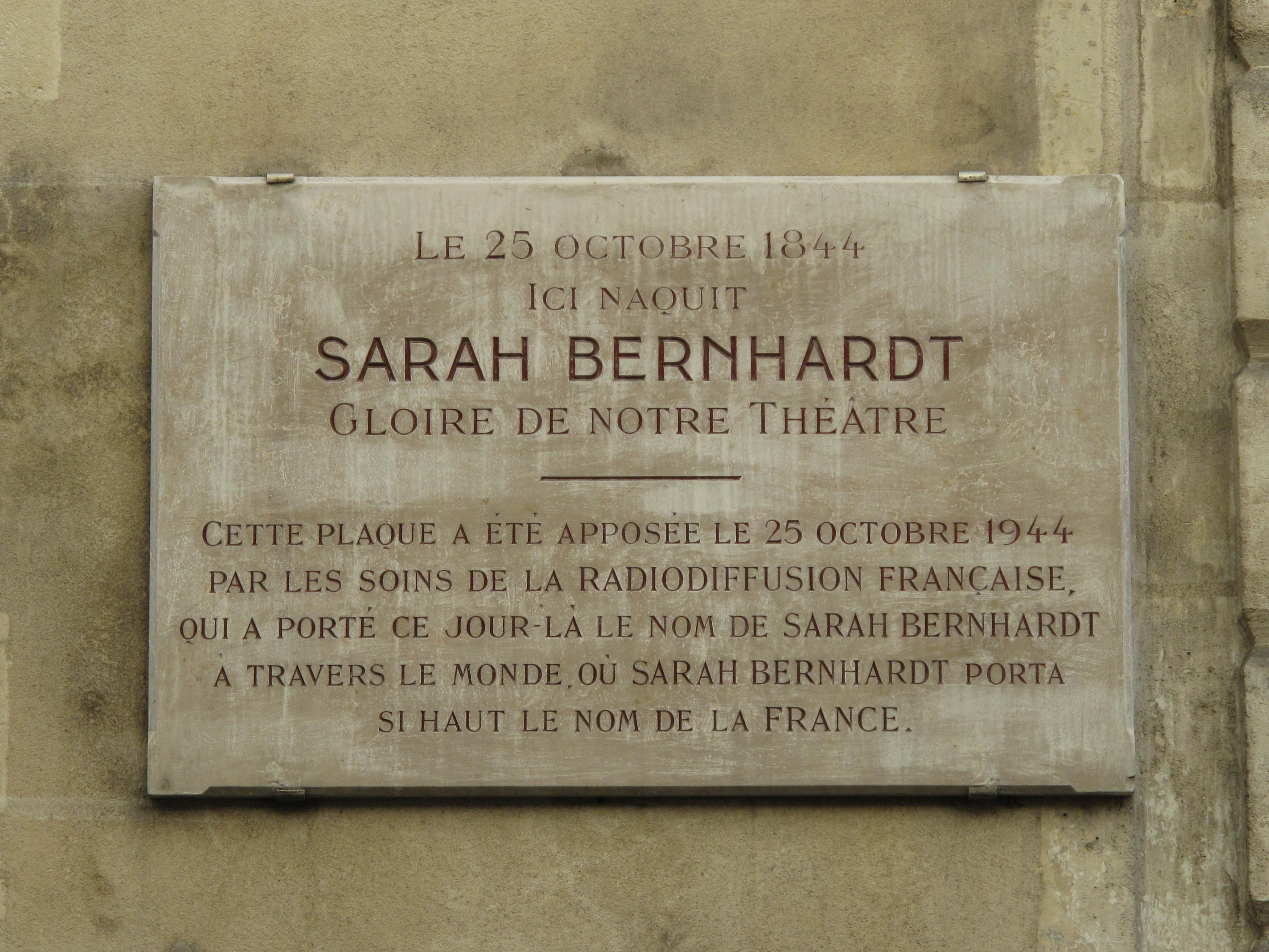 Plaque at the birthplace of the French actress Sarah Bernhardt (1844-1923) : 5 rue de l'École de Médecine, Paris 6th arr.